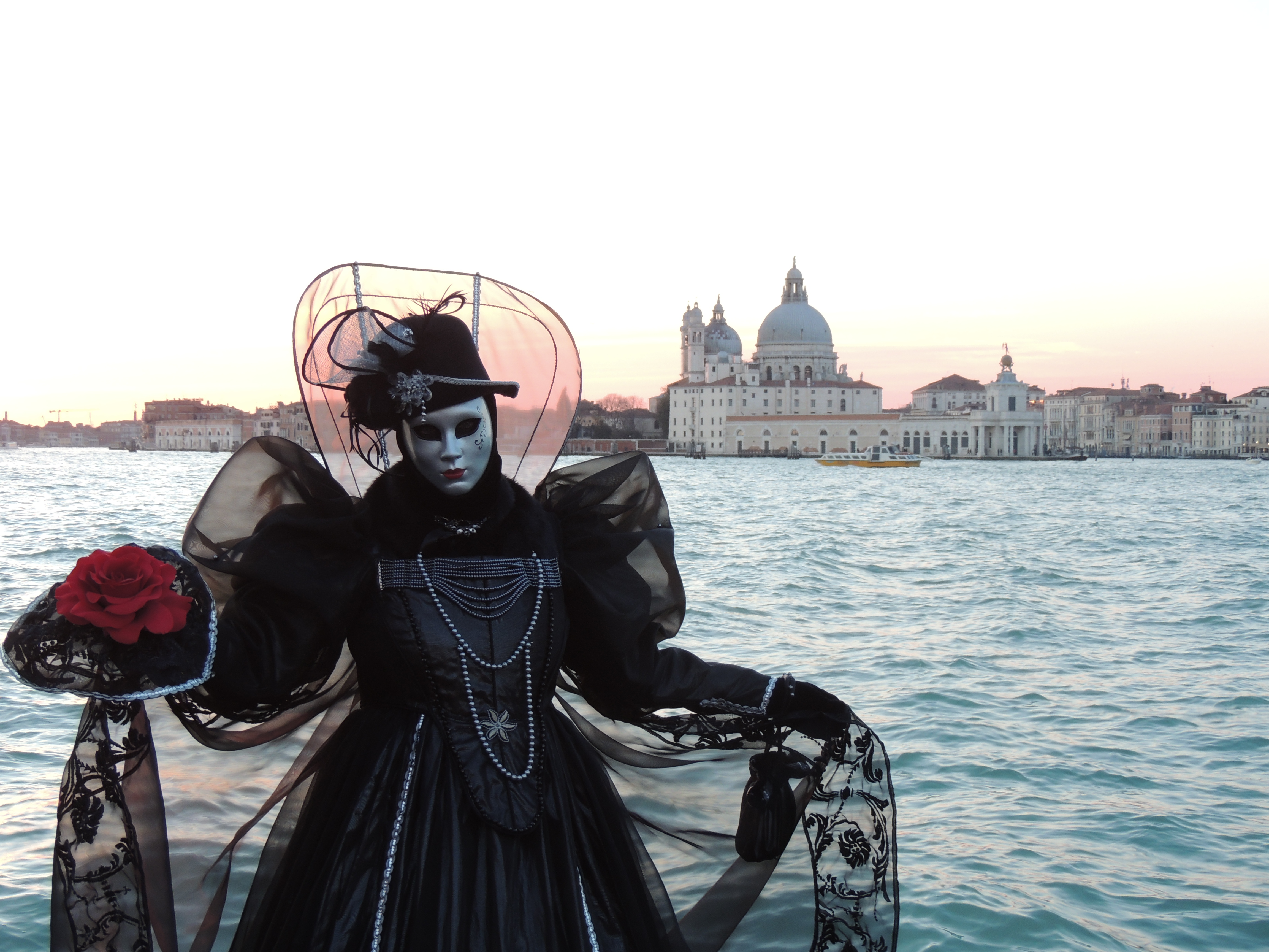 carnival of Venice 2015